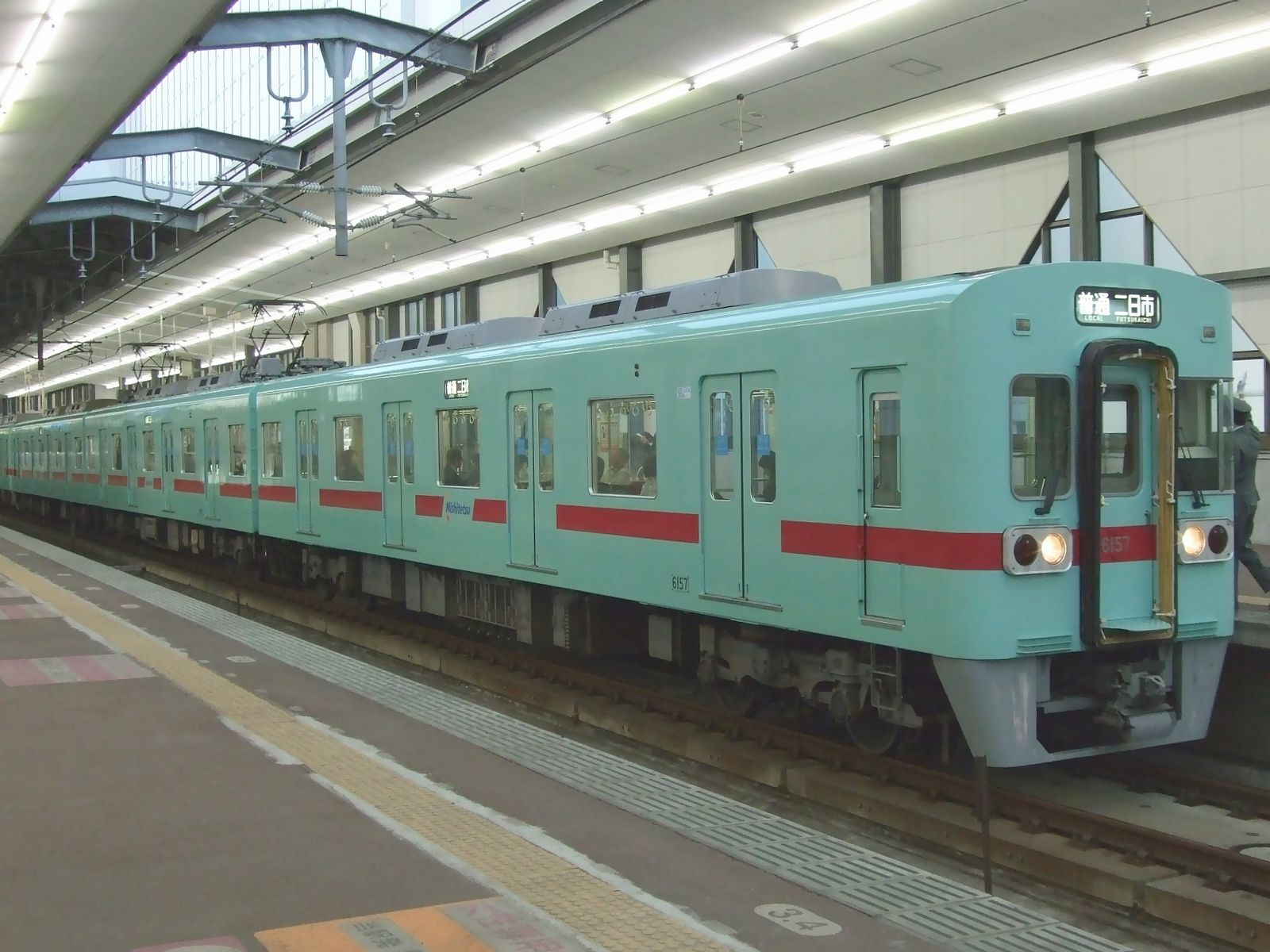 Nishi Nippon Railroad EMU Type6000